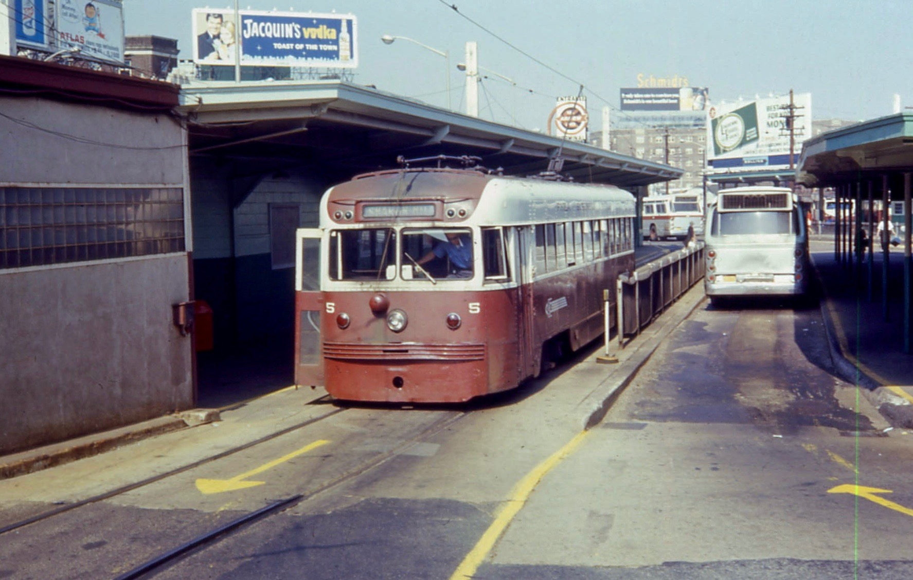 Car No. 5 of the Philadelphia Suburban Transportation Company at the 69th St. Terminal, in service on the Sharon Hill line. Car 5 was built in 1941 by Brill and is a Brilliner model. It and others of its type continued in service after PST was taken over by SEPTA, only about three months after this photo was taken, and the last cars of the type were retired in October 1982. Car 5 is preserved at the Pennsylvania Trolley Museum, in Washington, Pennsylvania. In the righthand background, two GM New Look buses are visible.